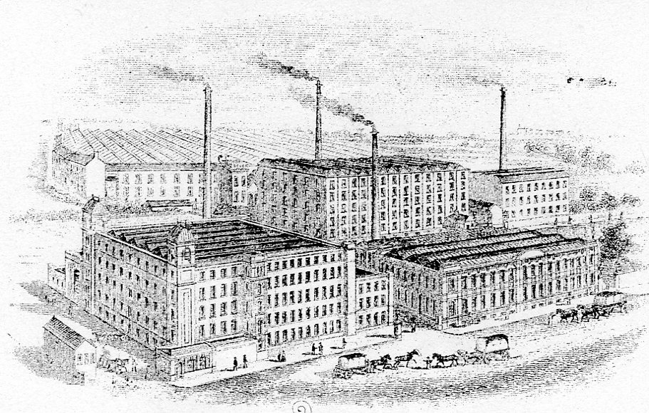 Image of some of the mills owned by Bagley & Wright in 1885.Wellington Mill (Lower Left), Belgrave Number 1 Mill (Lower Right), Industry Mill (Centre) and Wood Top Mill (Far right) from a 1895 Bagley & Wright Memo heading